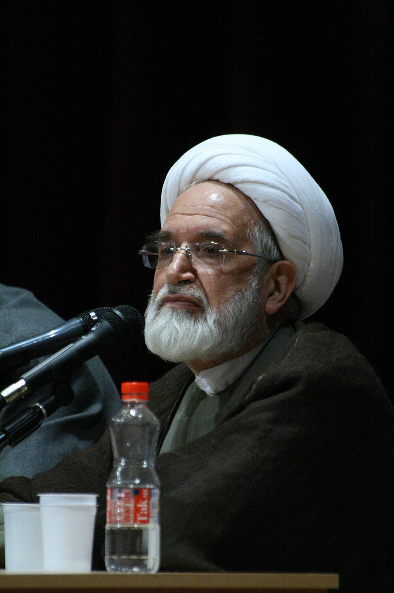 Mehdi Karrubi lecturing in Zanjan university